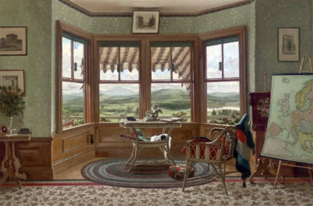 "Interior at the mountains", New Hampshire's Franconia mountain, oil on canvas, 46.4 x 68.6 cm.